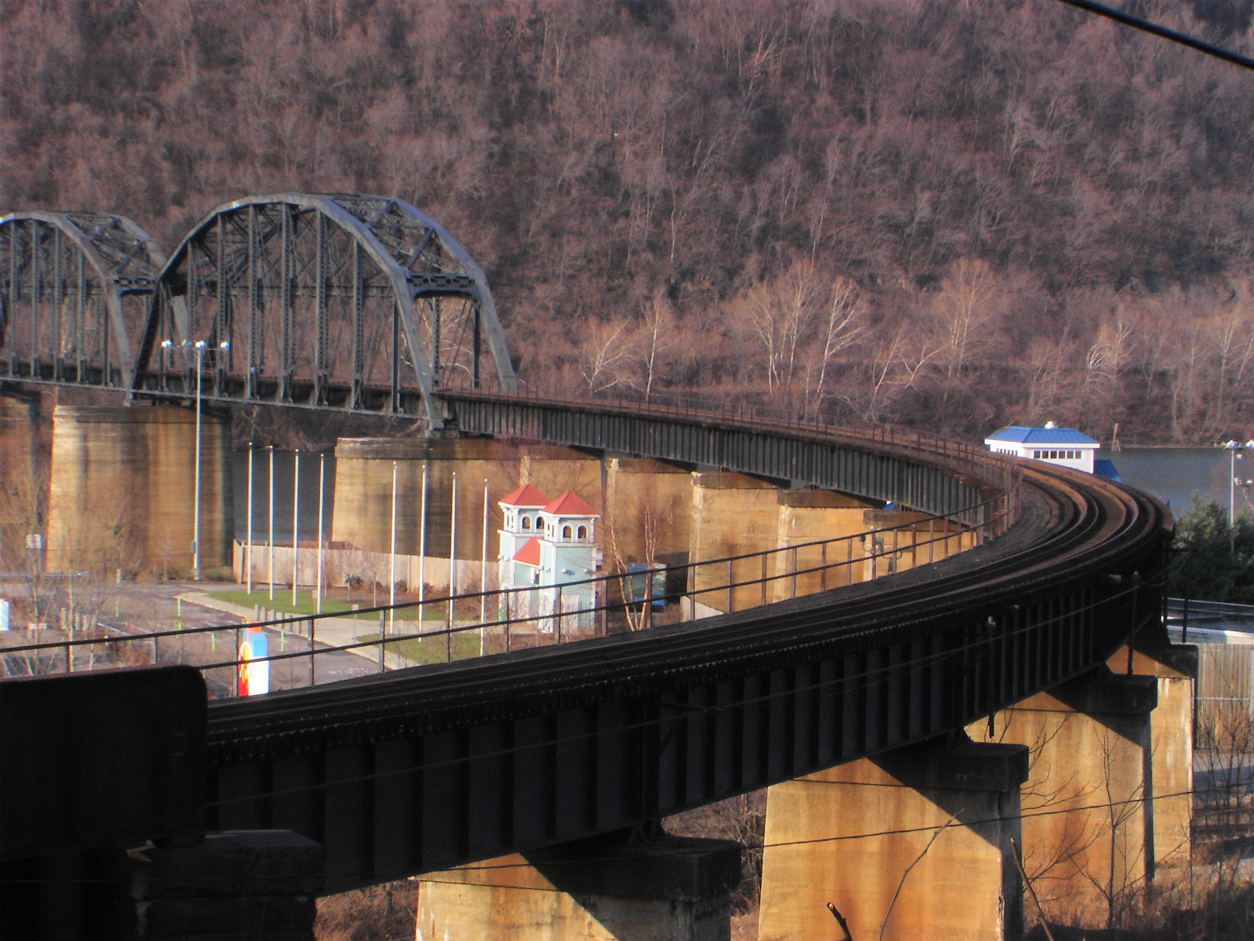 PixOnTrax